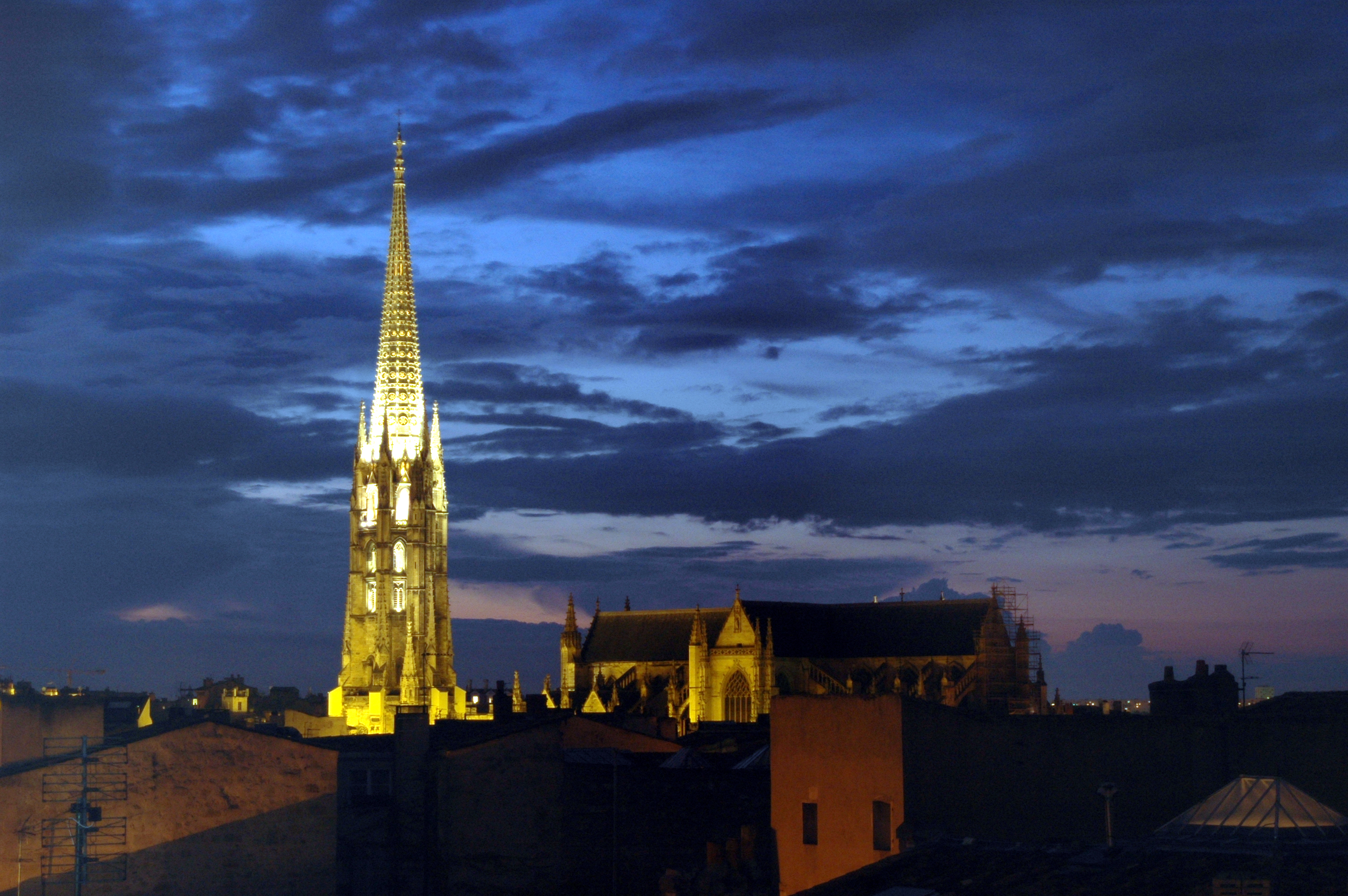 St Michel Church and tower - Bordeaux